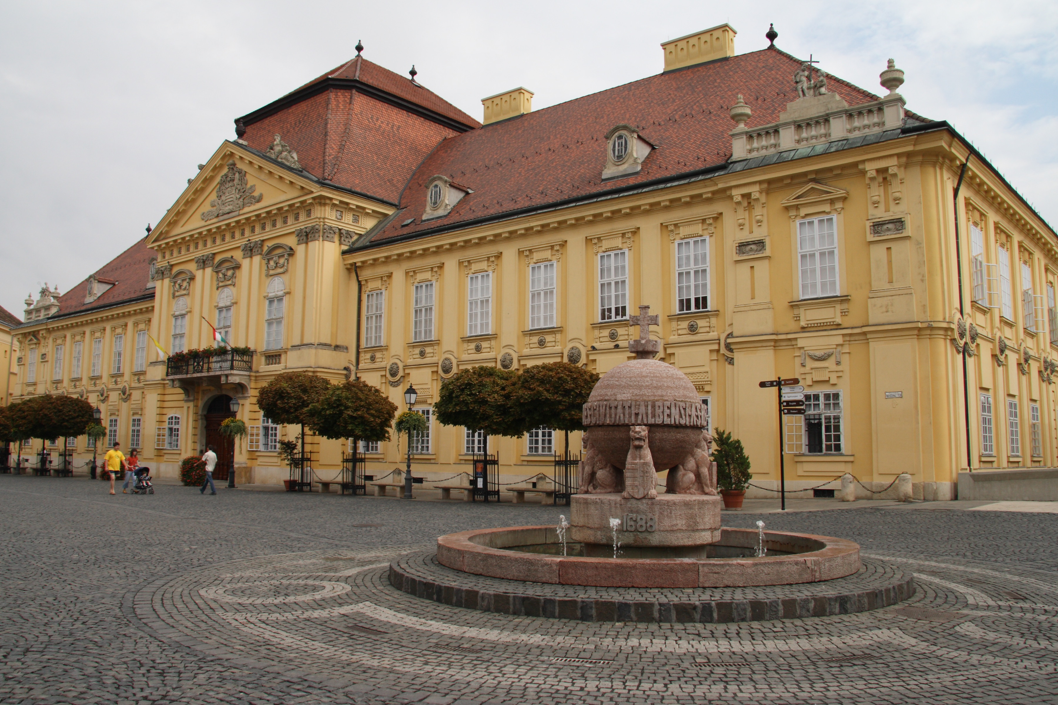 The Orb in front of the Episcopal Palace, Székesfehérvár